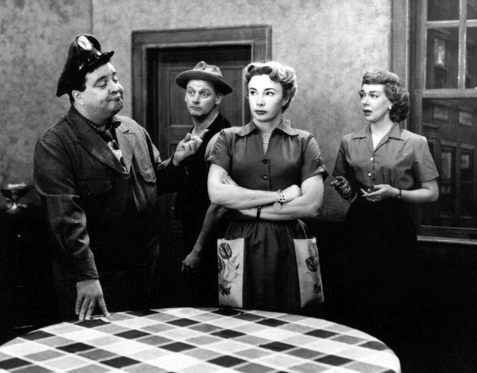 Photo of the full cast of The Honeymooners. From left-Jackie Gleason (Ralph Kramden), Art Carney (Ed Norton), Audrey Meadows (Alice Kramden), Joyce Randolph (Trixie Norton).